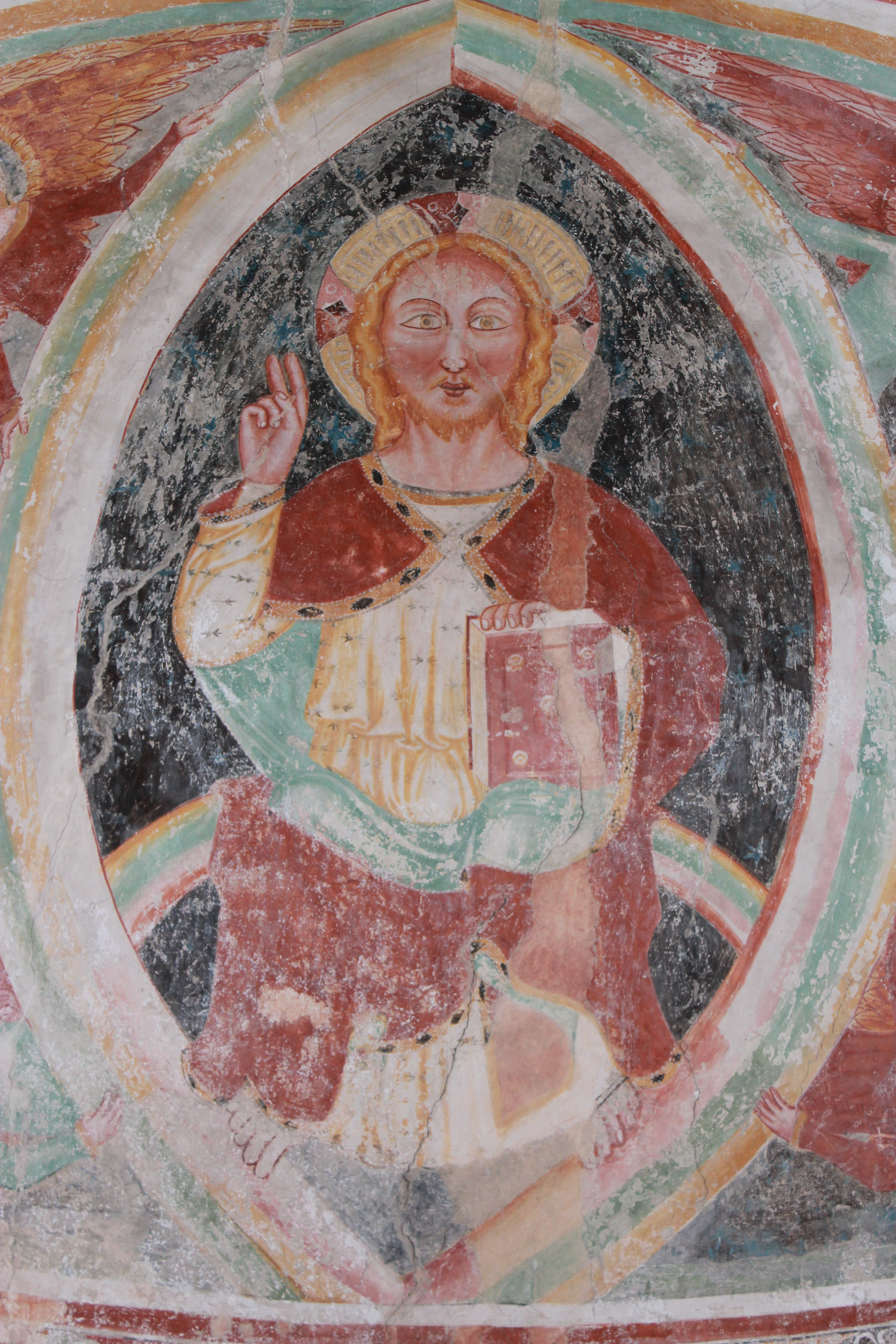 Parish church in Zweinitz in the community of Weitensfeld - Maiestas Domini